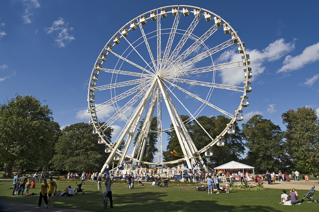 Alexandra Gardens Windsor Eye - Great Wheel - Ferris Wheel